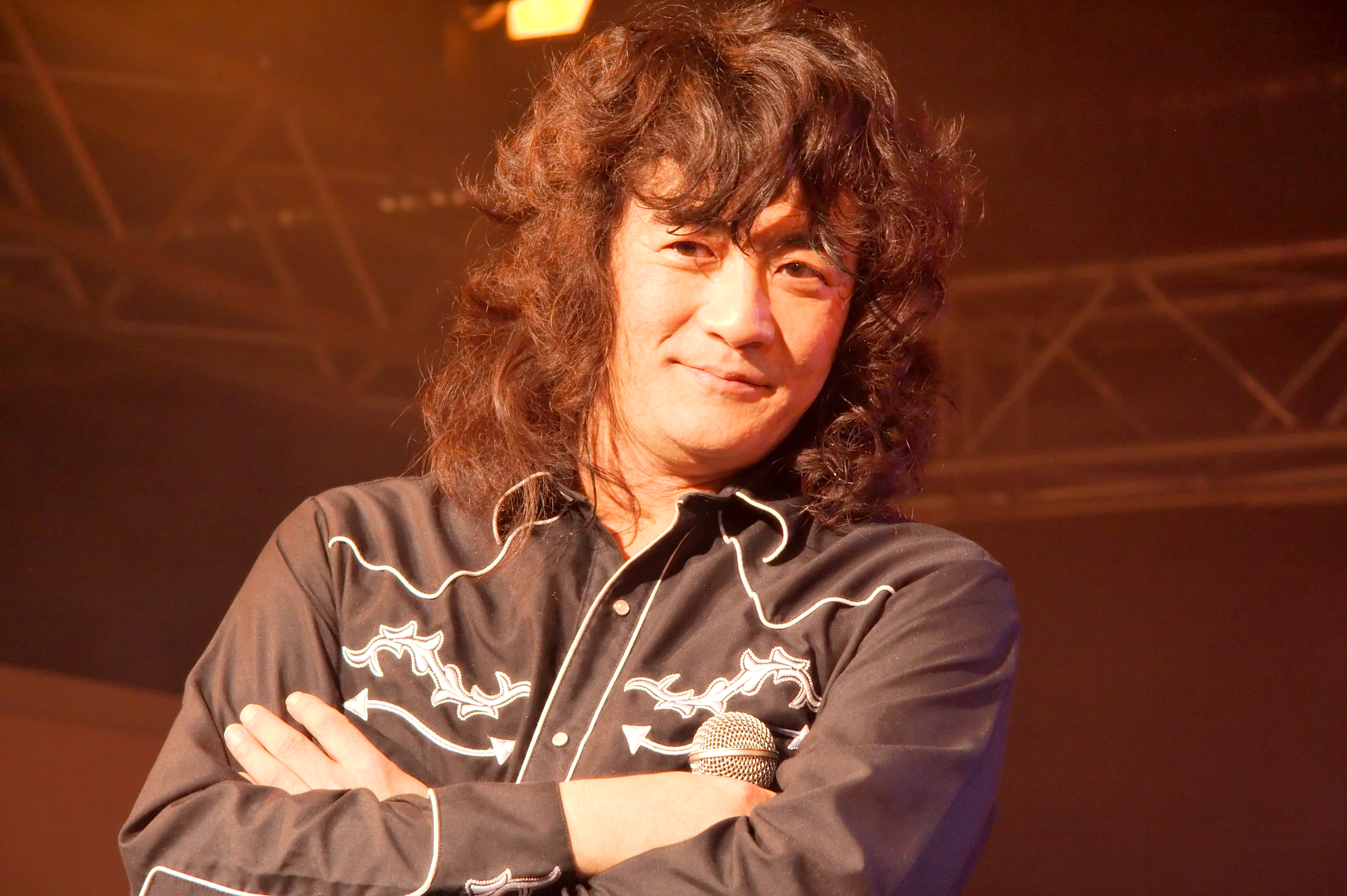 JAM Project live at Chibi Japan Expo 2008 (Paris, France).